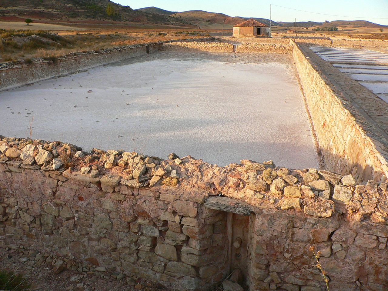 Salt mines of Imón, in Sigüenza, Guadalajara, Spain.